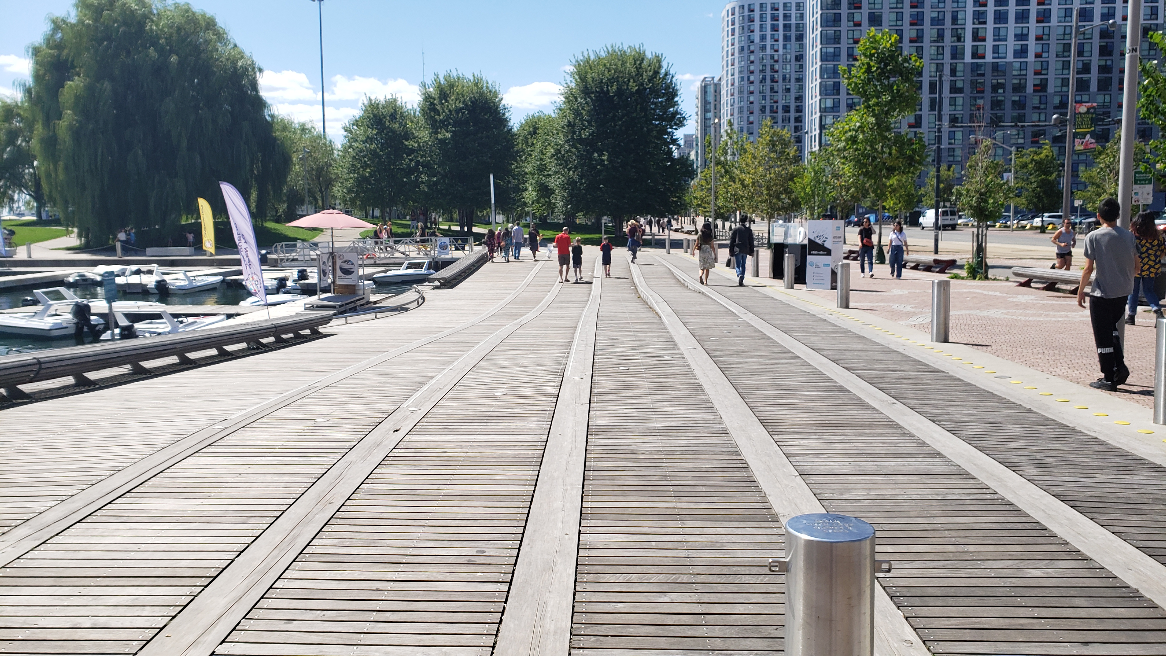 A picture of the Rees WaveDeck from the east side.